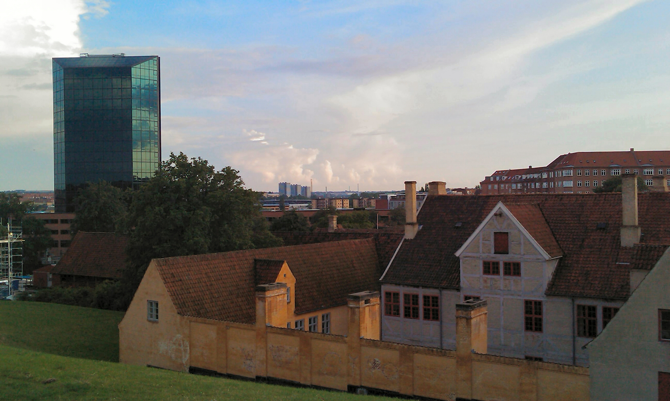 Photograph of The Old Town in Aarhus, Denmark with the highrise building Prismet in the background, which represents modern construction in the city of Aarhus.